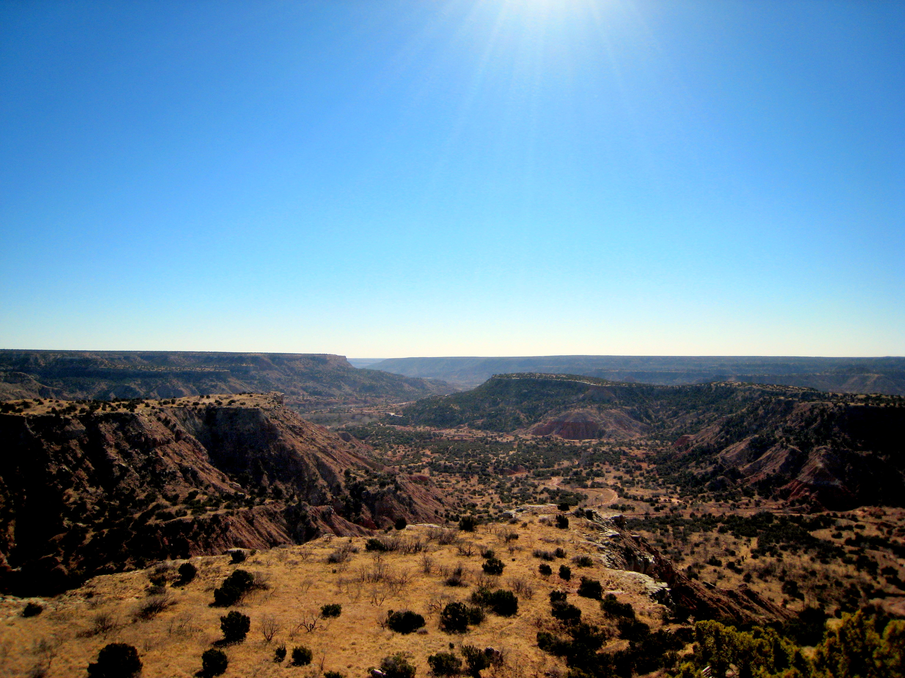 Palo Duro Canyon. view from the north rim, Palo Duro State Park.